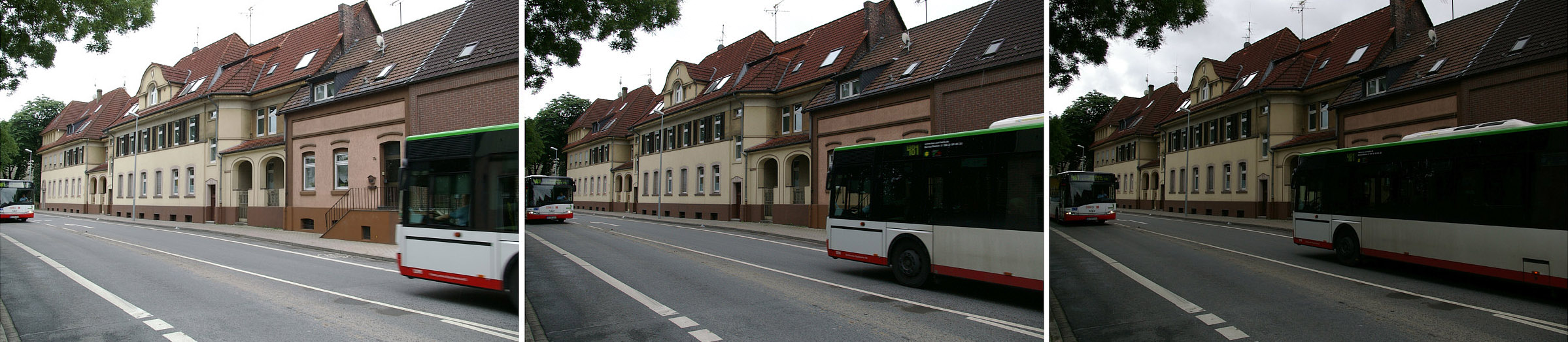 Auto Exposure Bracketing is not working well with moving objects